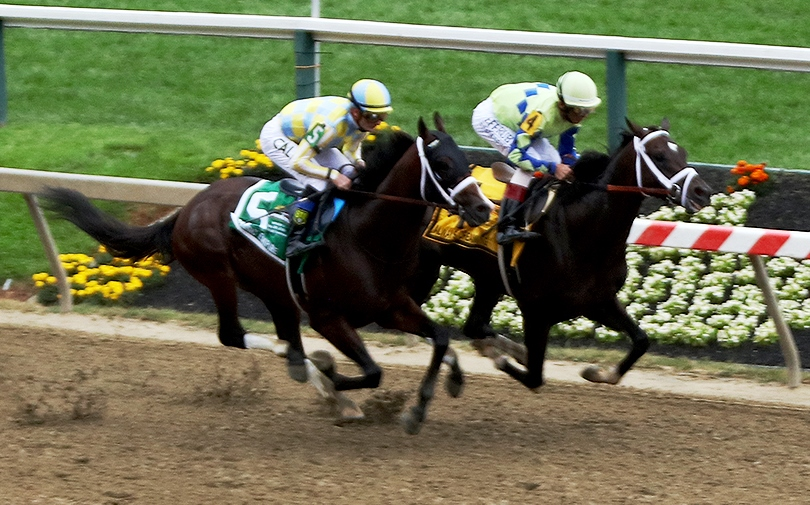 Always Dreaming (#4) and Classic Empire (#5). Governor Hogan, Lt. Governor Rutherford, First Lady Yumi Hogan Attend The 142nd Preakness by staff at Pimlico Race Track 5201 Park Heights Ave Baltimore, Maryland 21215 Photos from the 2017 Preakness Stakes. Governor Hogan, Lt. Governor Rutherford, First Lady Yumi Hogan attend the 142nd Preakness. Photos were taken by staff at Pimlico Race Track (5201 Park Heights Ave Baltimore, Maryland) on May 20, 2017.